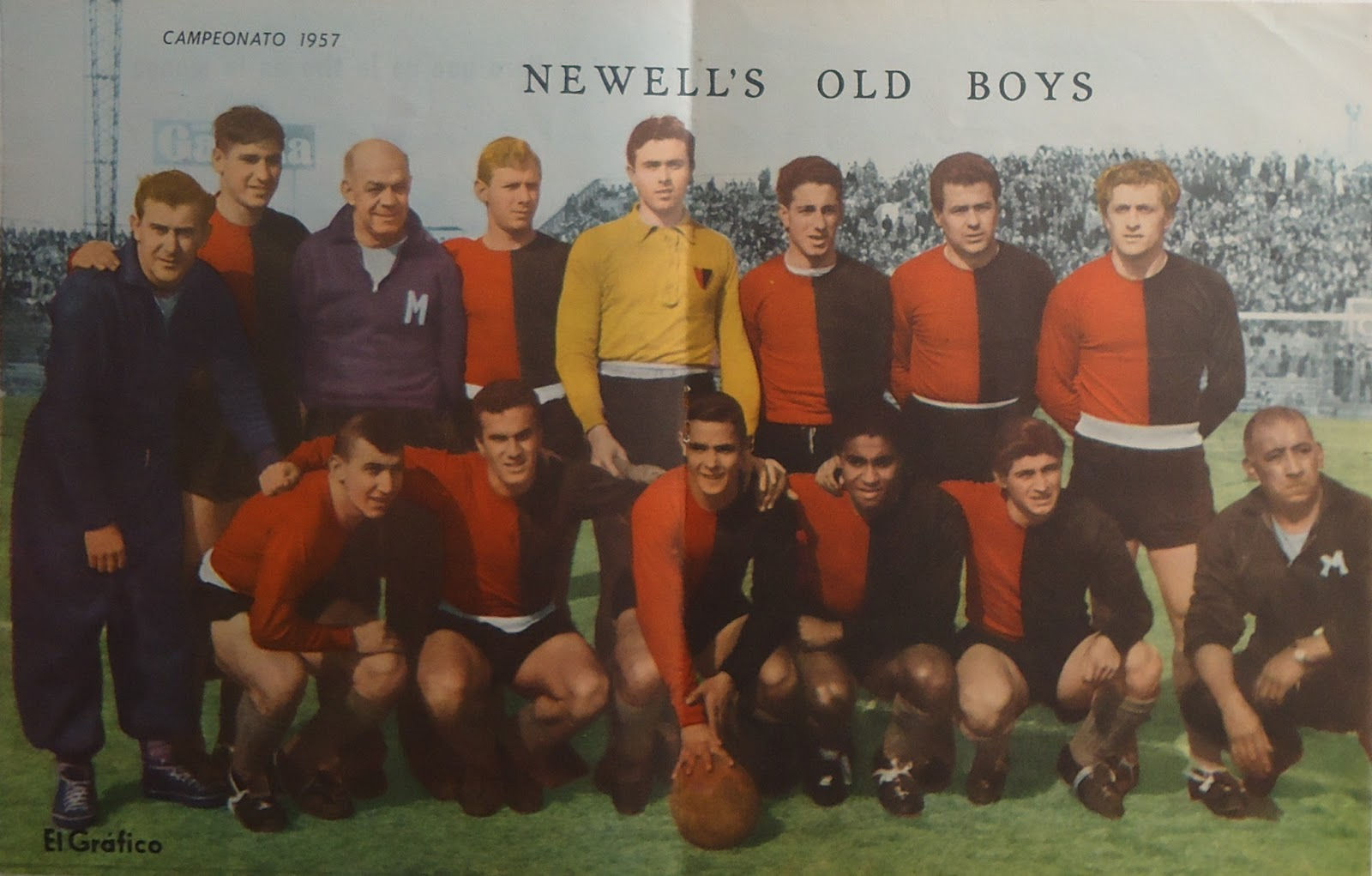 Team of Newell's O.B., coached by René Pontoni.